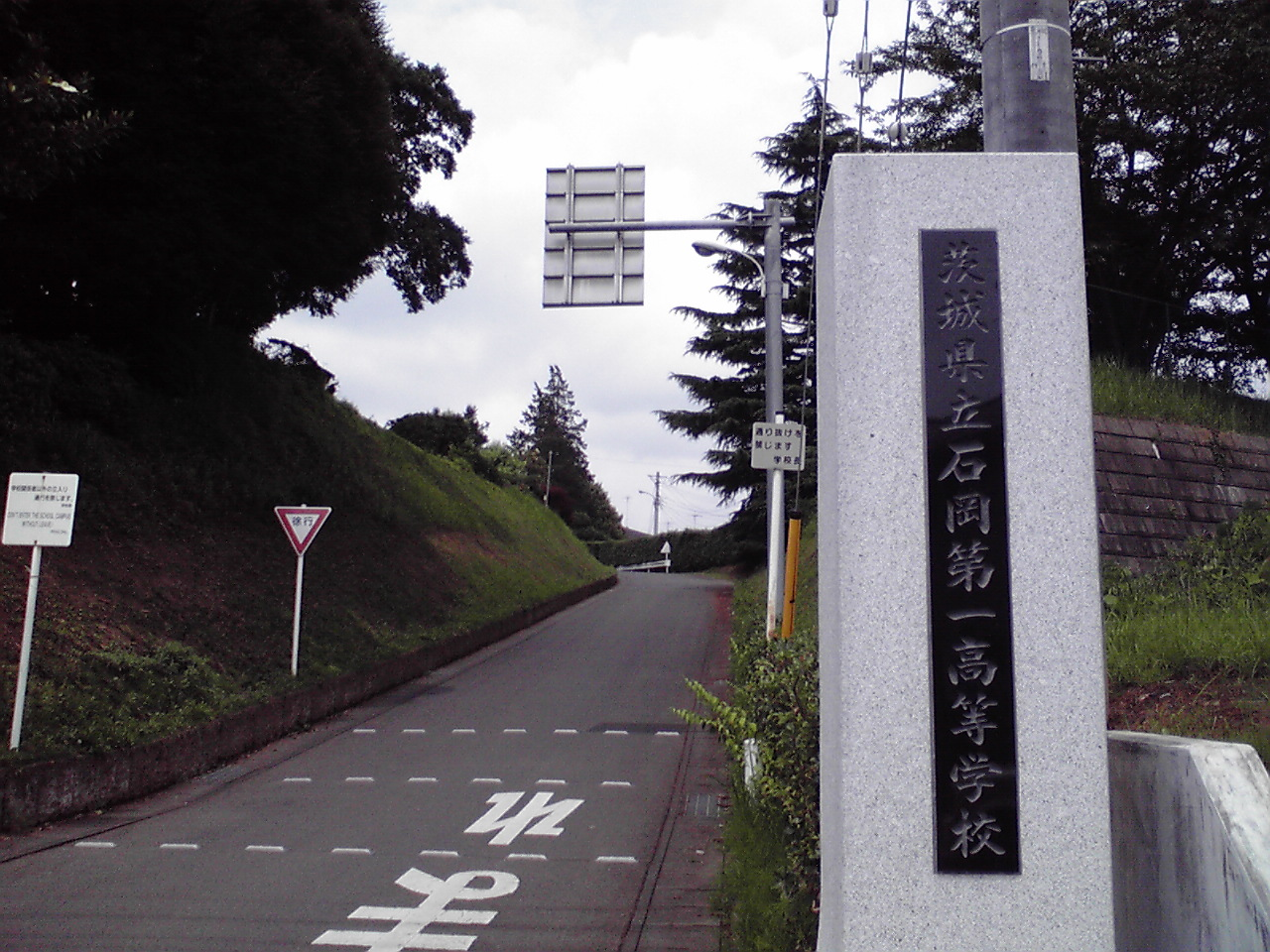 This is a high school gate in Ishioka, Ibaraki, Japan.